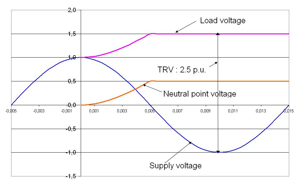 TRv during 3-phase capacitive current interruption